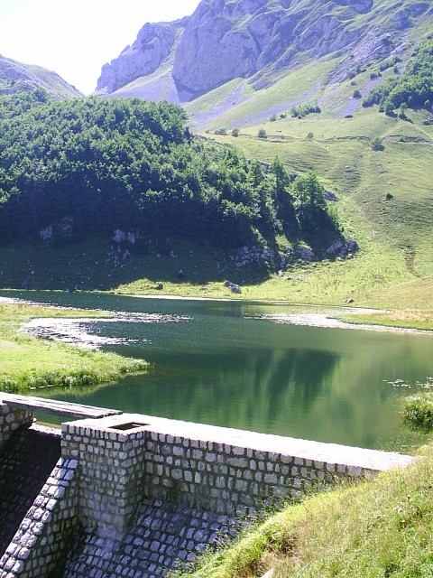 Borilovačko jezero lake in Zelengora mountains, BiH